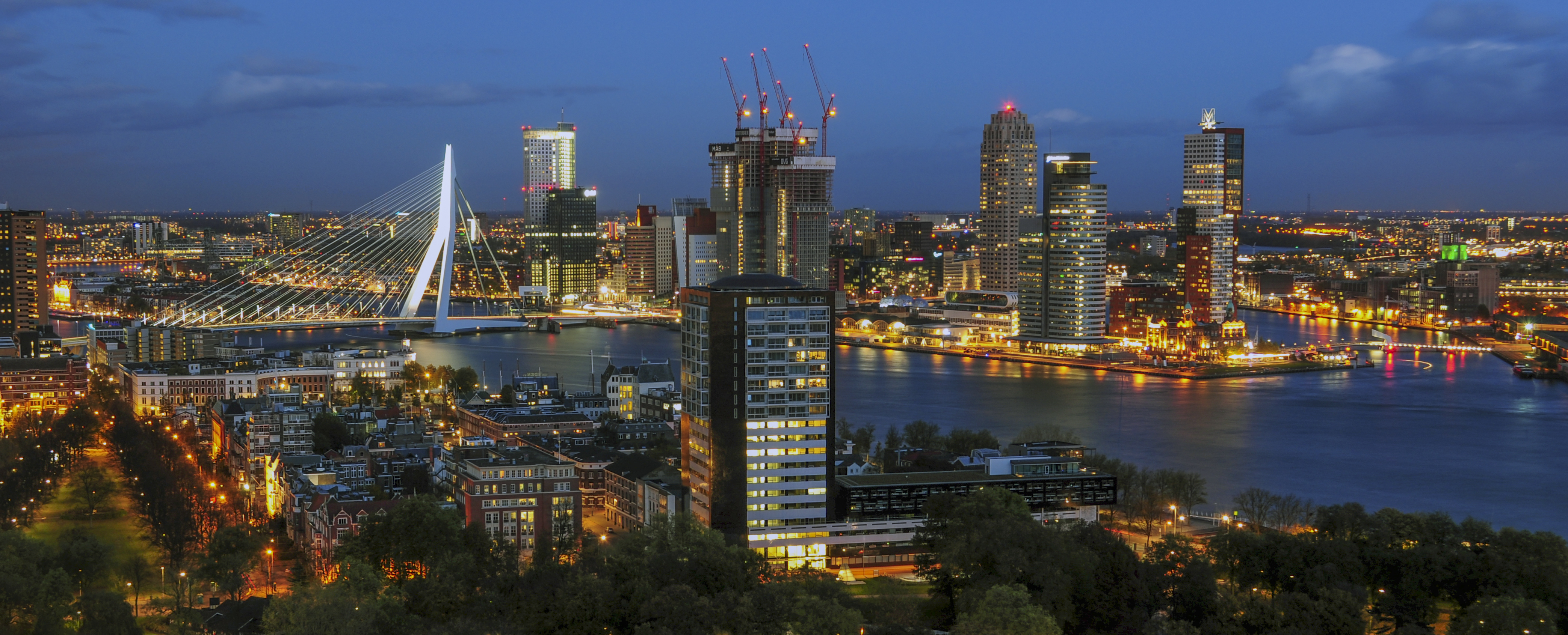 Erasmusbrug (Rotterdam) seen from the Euromast tower